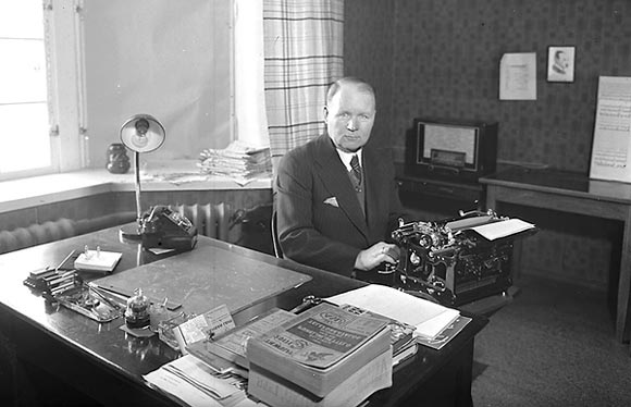 The editor of Kansan Lehti, Jalmari Leino, at his desk.